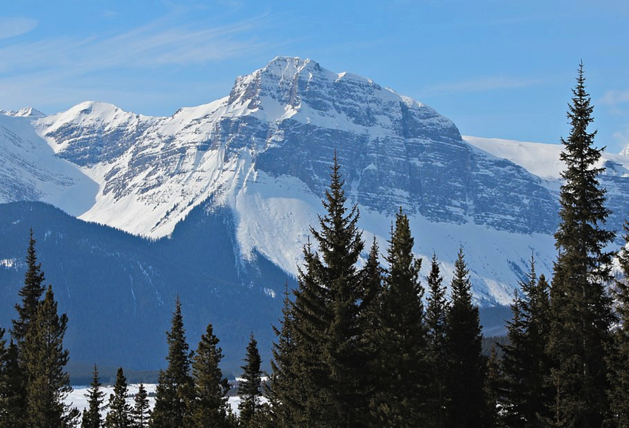 Mount Turner in winter seen from Spray Lakes, Alberta Canada